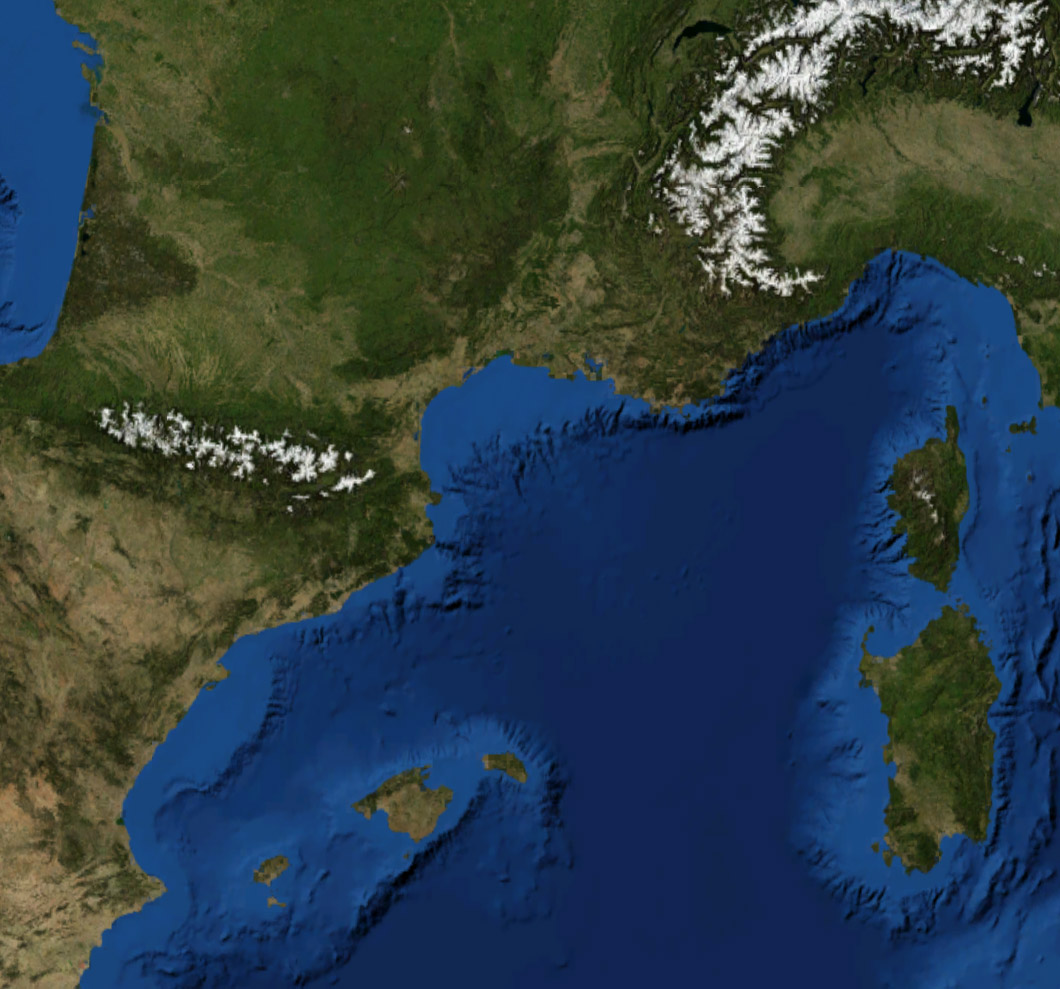 Satellite Picture of the Category:Gulf of Lion